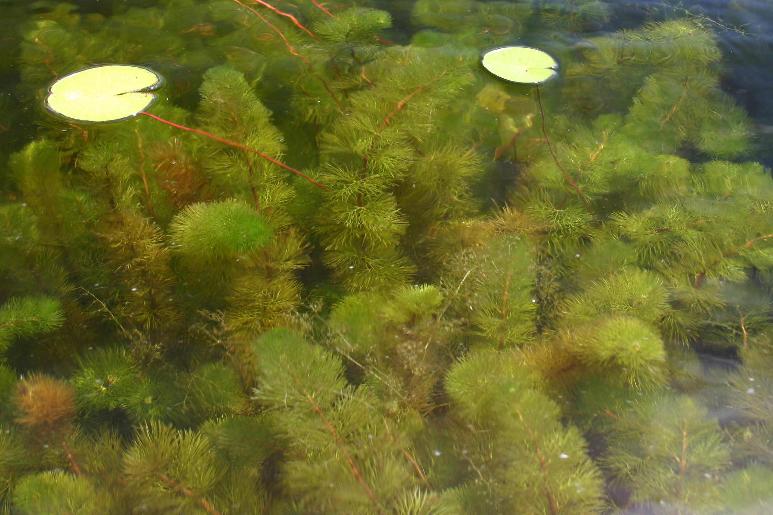 twoleaf watermilfoil - Myriophyllum heterophyllum Michx.